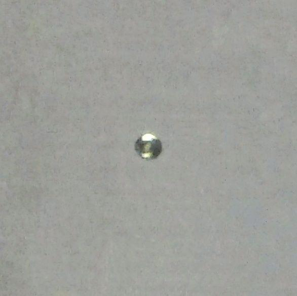 Pollen of Galphimia gracilis